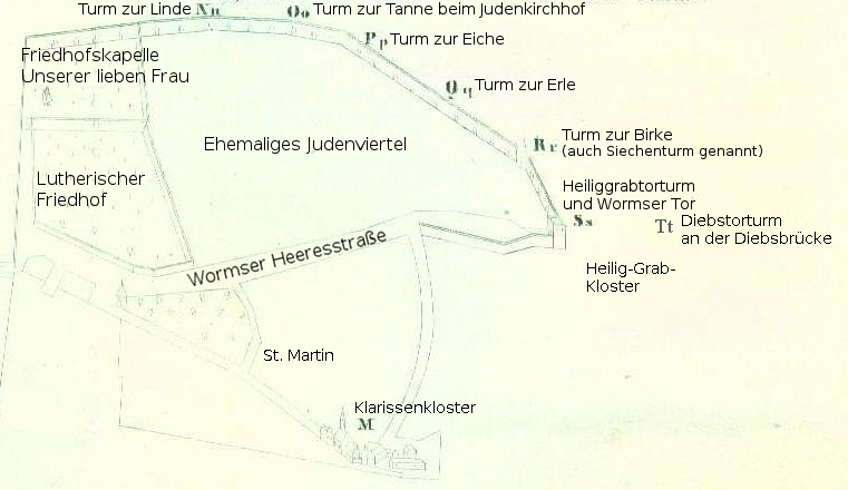 Altspeyer on the citymap of 1730